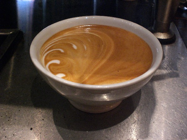 Caffè latte as being served in Oslo